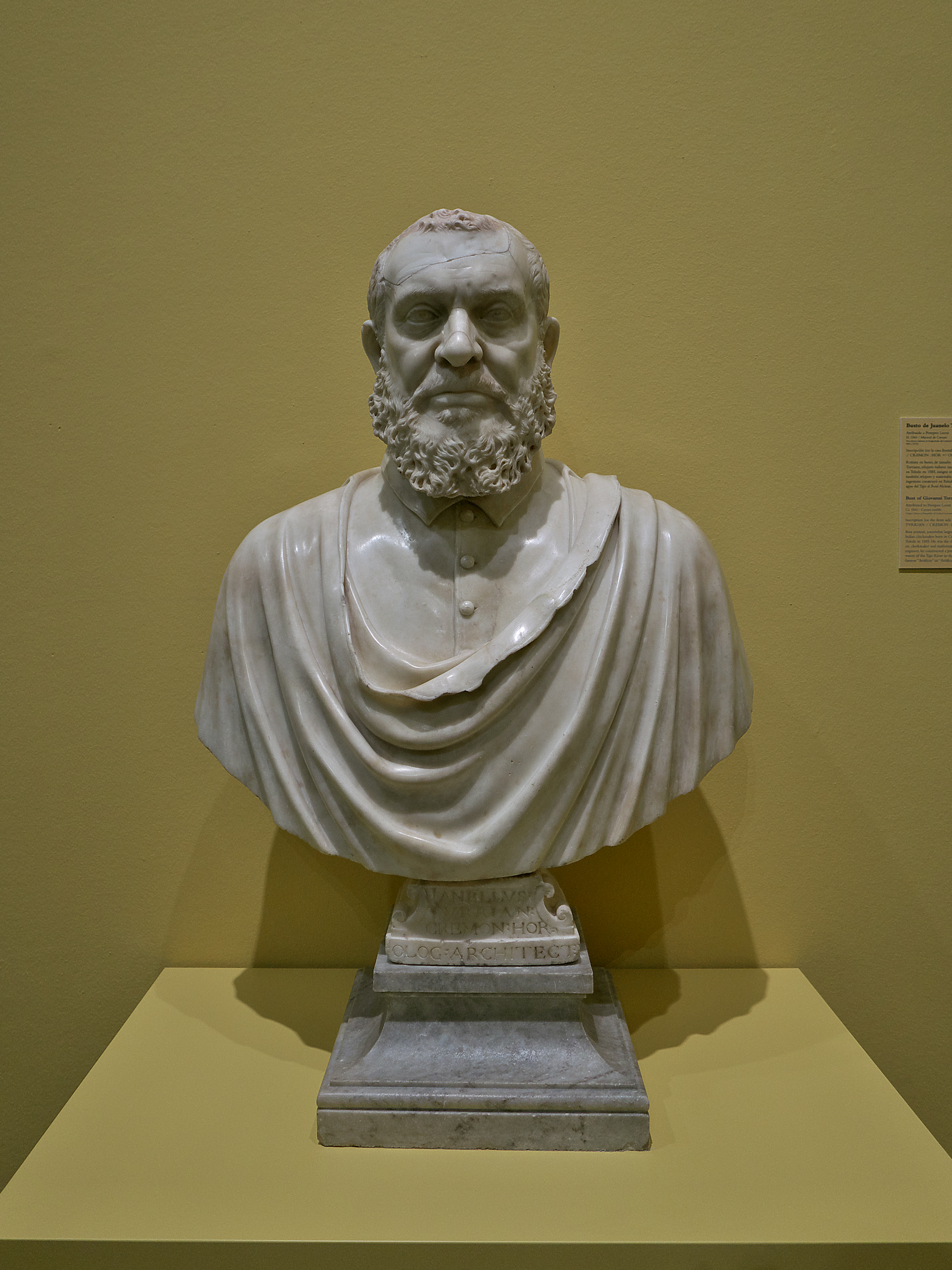 Bust of Giovanni Torriani (ca. 1560), Toledo (Spain), Carrara marble. Attributed to Pompeo Leoni.